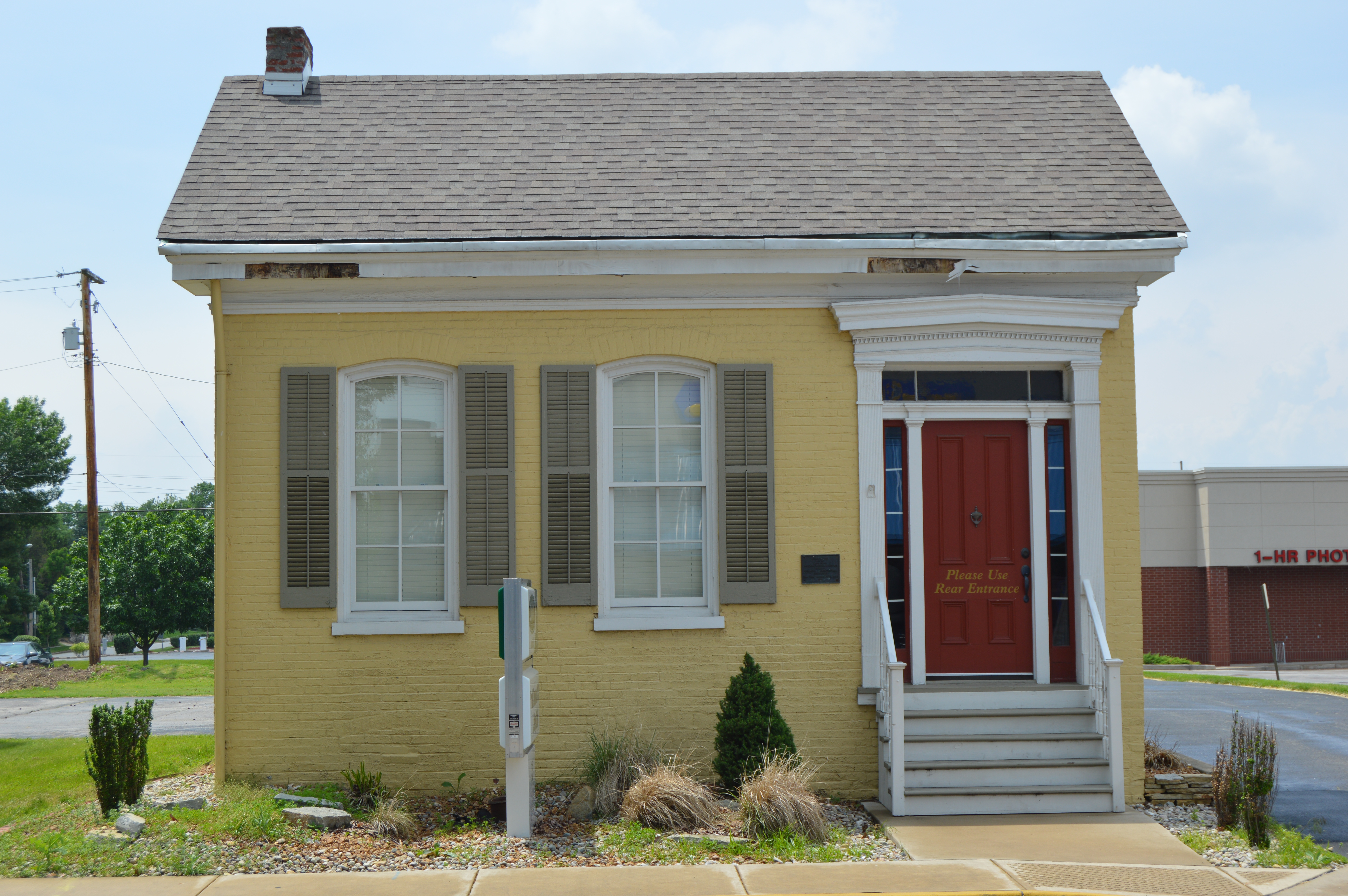 Front of the Berleman House, located at 115 S. Main Street (Illinois Route 159) in Edwardsville, Illinois, United States. Built in 1868, it is listed on the National Register of Historic Places.